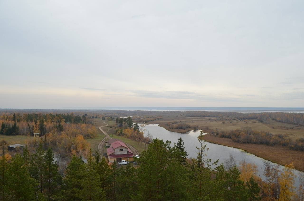 This photos are made during cruise Yakutsk — Lеnskiye Shchyoki, Lena Cheeks — Yakutsk (with arrival in Mirny), 05.09−17.09.2016